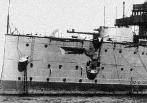 Foreward BL 9.2 inch gun on HMS Cressy. For full image see Image:HMS Cressy.jpg